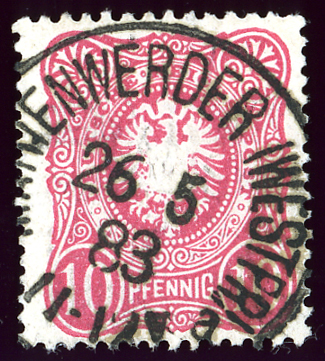 Stamp of Germany, 10 Pfg issue 1880, cancelled at MARIENWEDER (Westpreussen) in 1883, now Poland (Kwidzyn).